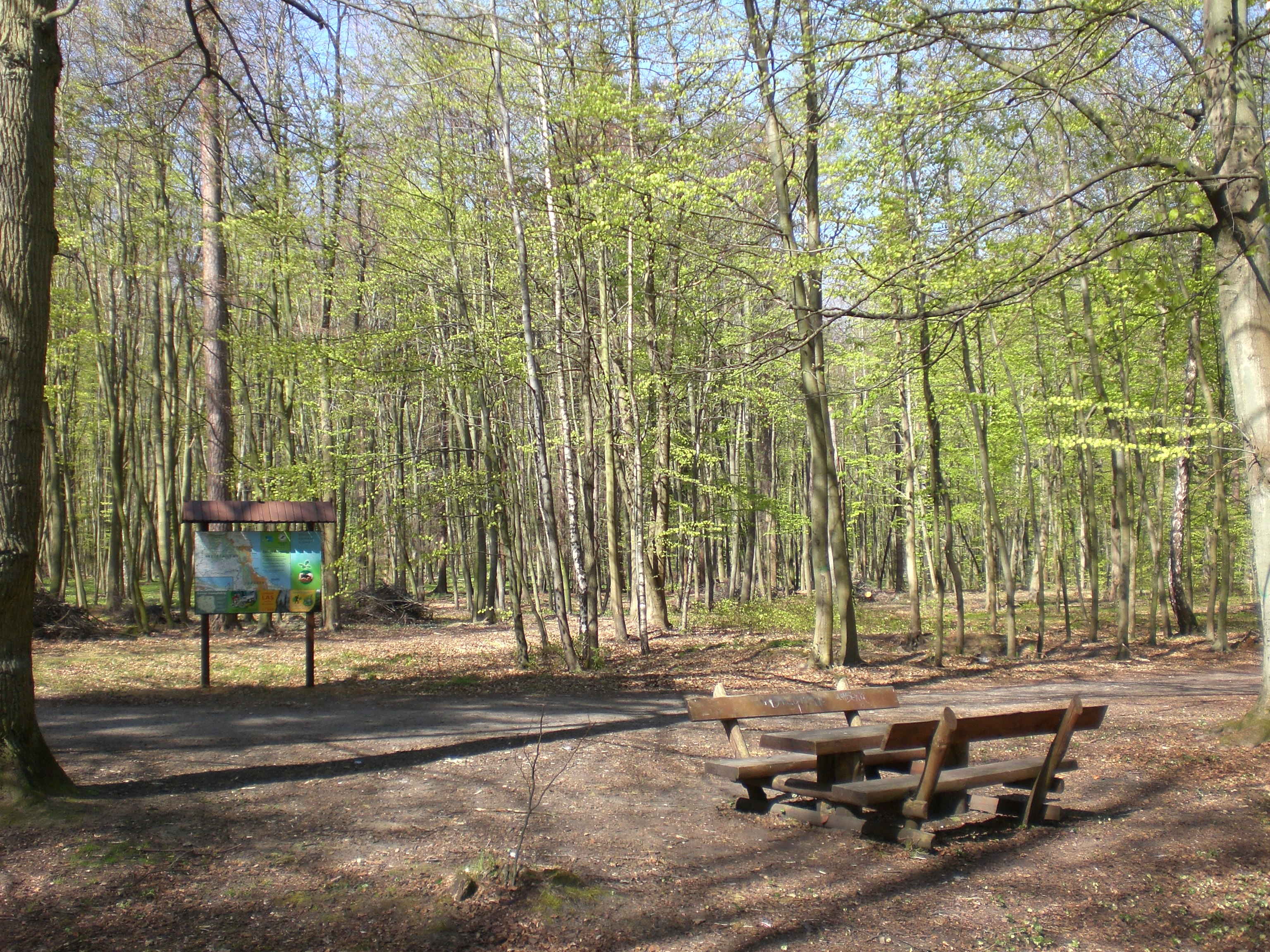 Sopot - Wielka Gwiazda